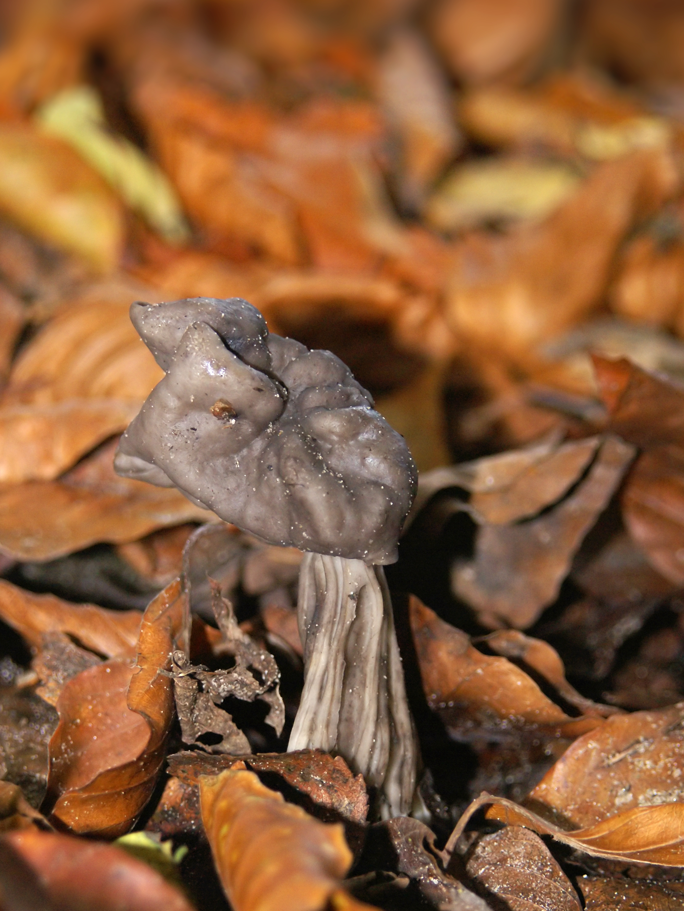 Fluted Elfin Saddle mushroom in Tillegem bos near Brugge, Belgium.